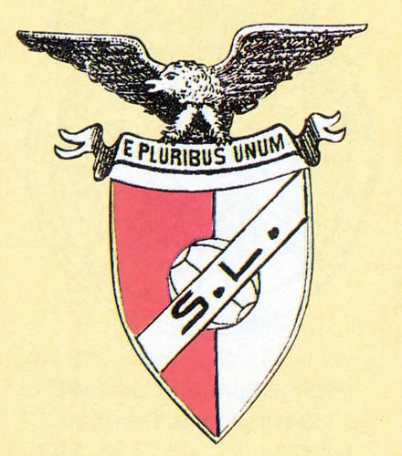 Logo of portuguese football club Grupo Sport Lisboa founded in 28/02/1904, before union with Sport Lisboa e Benfica, in 1908.